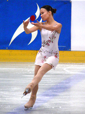 Jacqueline Voll during her short program at the 2006 Junior Grand Prix event in The Hague, Netherlands